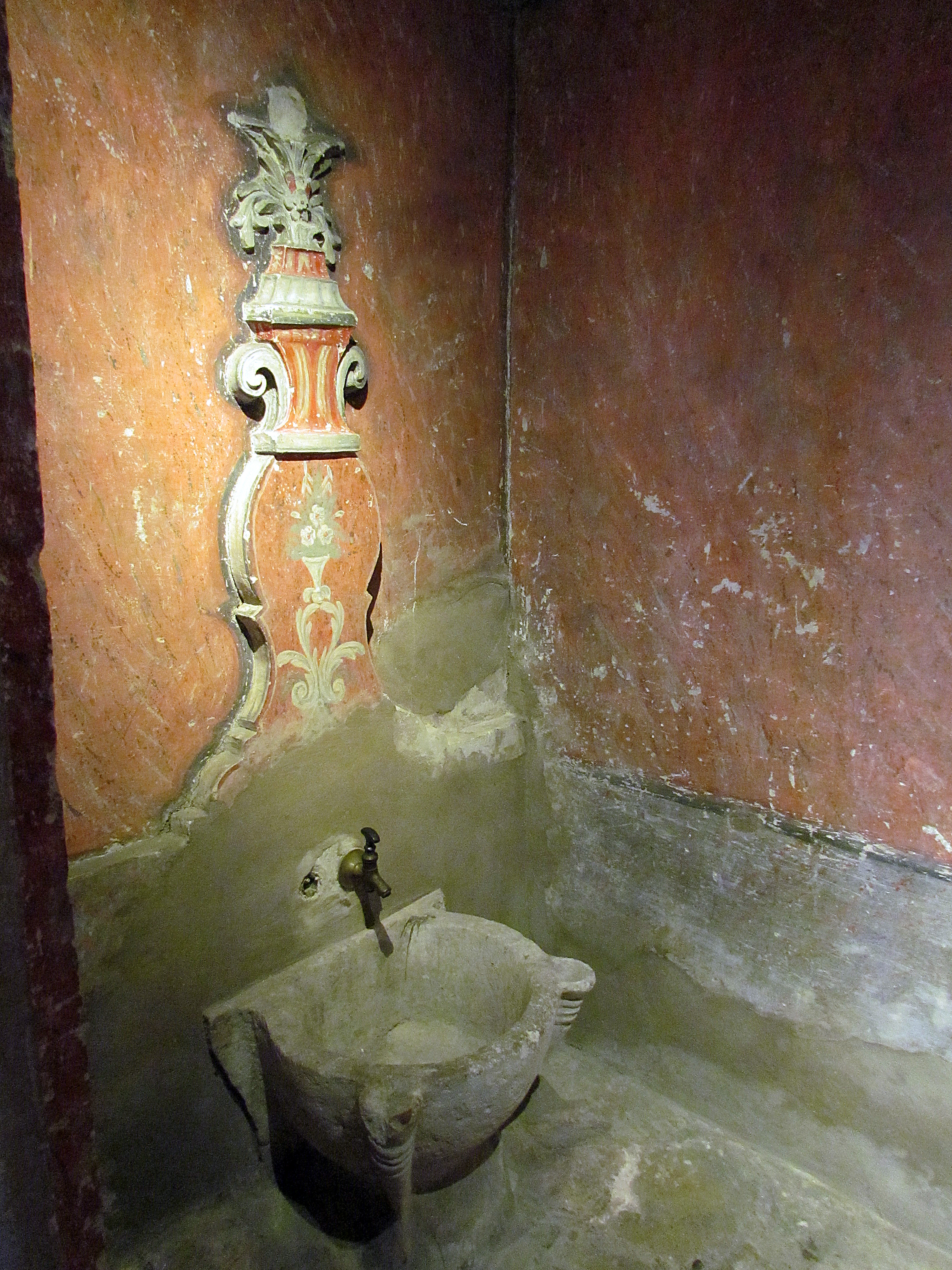 Amamcik (smal Turkish bath) in Princess Ljubica's Residence, Belgrade